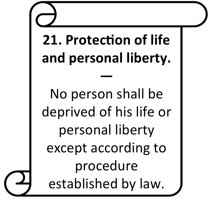 art21